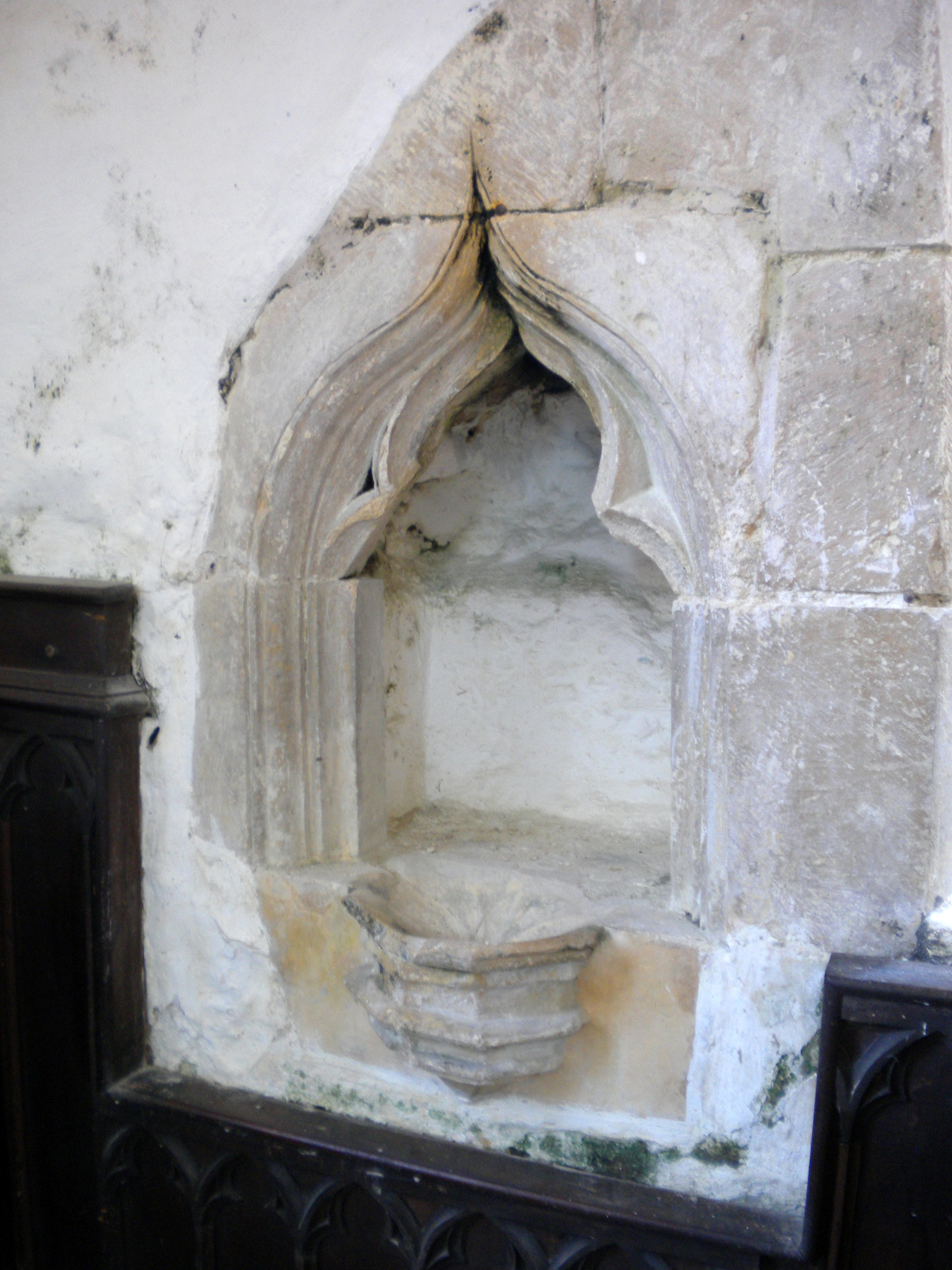 Buncton All Saints Chapel, Wiston, West Sussex, England. Ornate piscina in the south chancel wall.